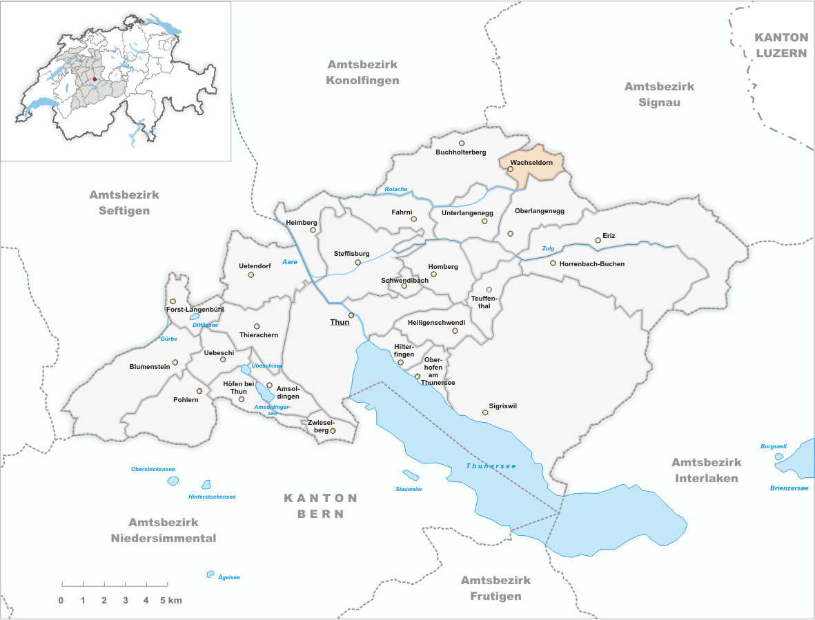 Municipality Wachseldorn